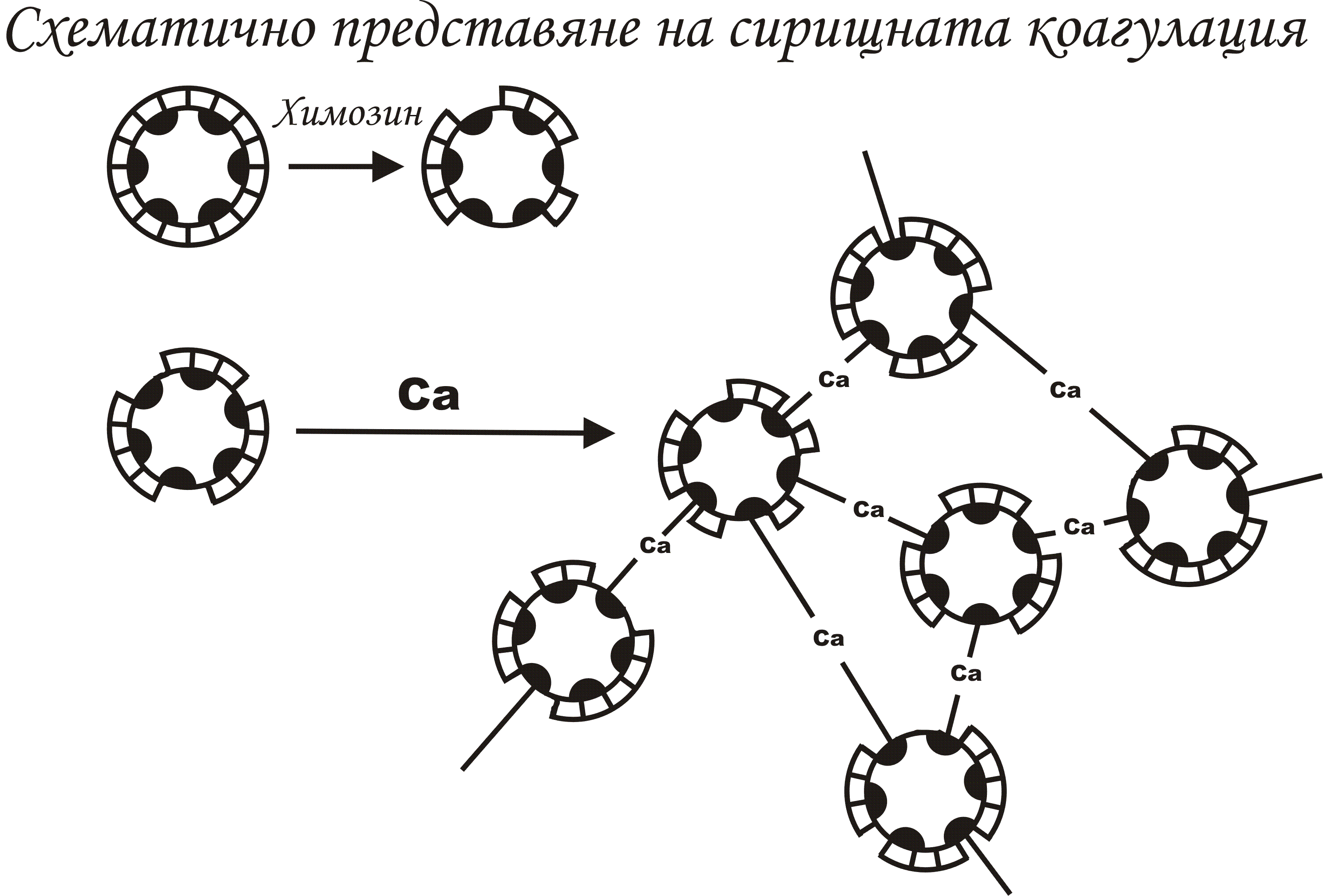 Chimosin coagulation of milk